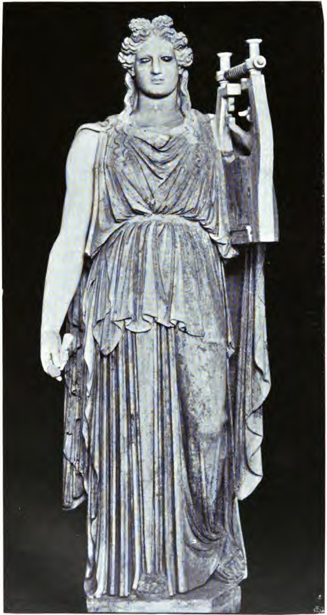 Author: Furtwängler, Adolf, 1853-1907. [from old catalog]; Urlichs, Heinrich Ludwig, 1864- [from old catalog] joint author Subject: Sculpture, Greek. [from old catalog]; Sculpture, Roman. [from old catalog] Publisher: München, F. Bruckmann a. g Year: 1904 Possible copyright status: NOT_IN_COPYRIGHT Language: German Digitizing sponsor: Google Book contributor: Harvard University Collection: americana